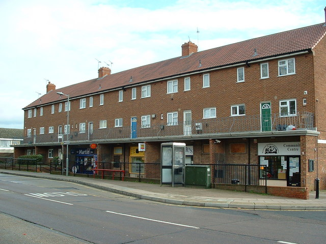 Estate Shops A small row of shops on Maidenhall Approach Ipswich Suffolk.